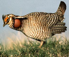 Lesser Prairie Chicken (Tympanuchus pallidicinctus)